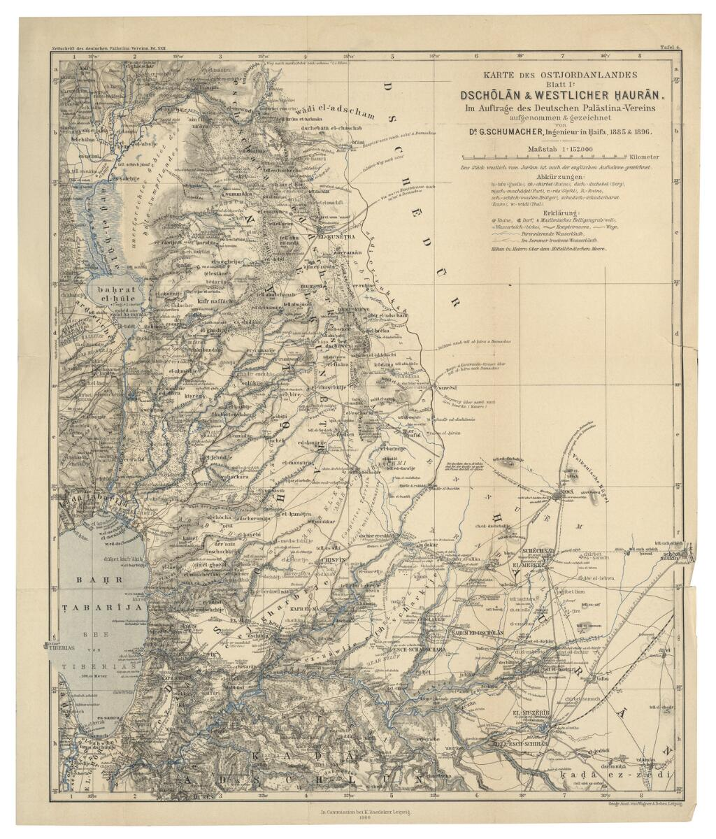 Karte des Ostjordanlandes Blatt I: Dscholan & Westlicher Hauran / Im Auftrage des Deutschen Palästina-Vereins aufgenommen & gezeichnet von Dr. G. Schumacher, Ingenieur in Haifa 1885-1896.